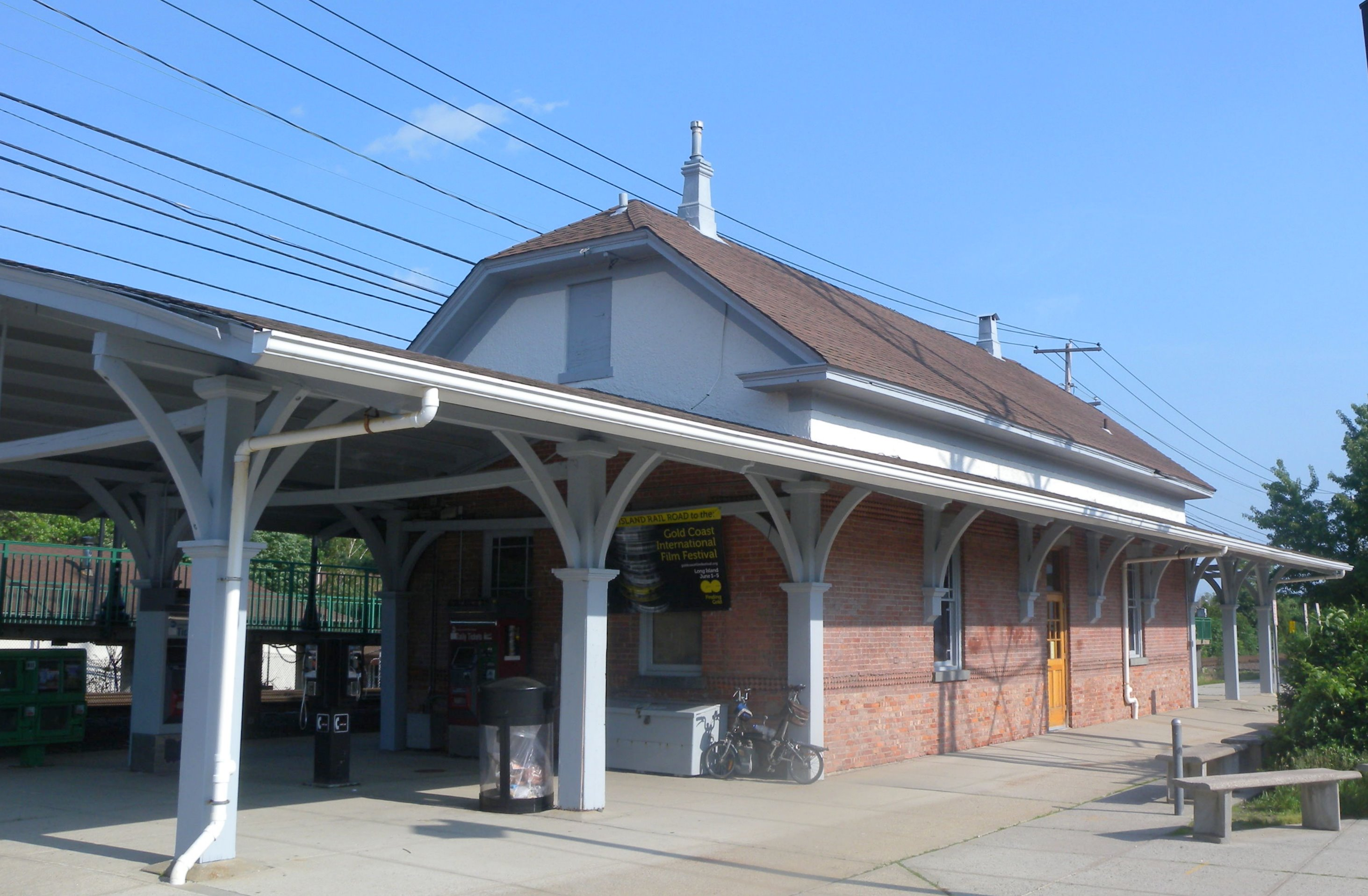 Looking southeast at Roslyn station on a sunny afternoon.